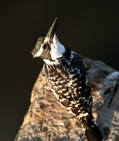 Pied Kingfisher (Ceryle rudis) at/ near Hodal in Faridabad District of Haryana, India.